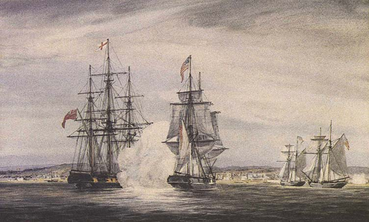 Engagement of the American Brig Oneida and British Corvette Royal George in Kingston Harbour, Upper Canada. Incident occured Nov. 10, 1812. A historical reconstruction based on written descriptions of the event. The work was likely commissioned by Canada Steamship Lines. Coverdale no. 487. One of a series of 15 marine watercolours relating to the American Revolution and the War of 1812.